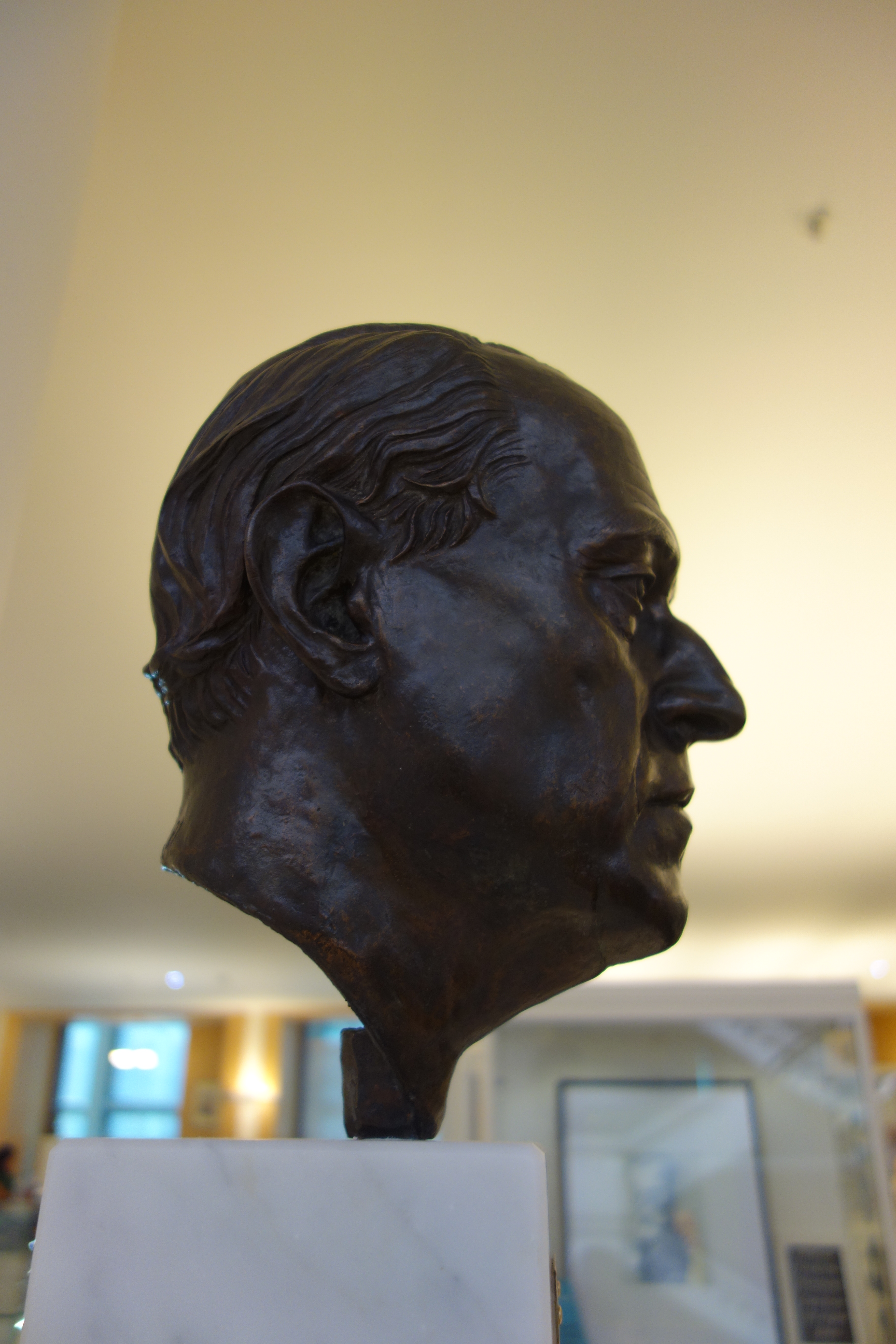 Bust of W.F. Hermans by Sylvia Willink, Public Library Amsterdam, August 2017